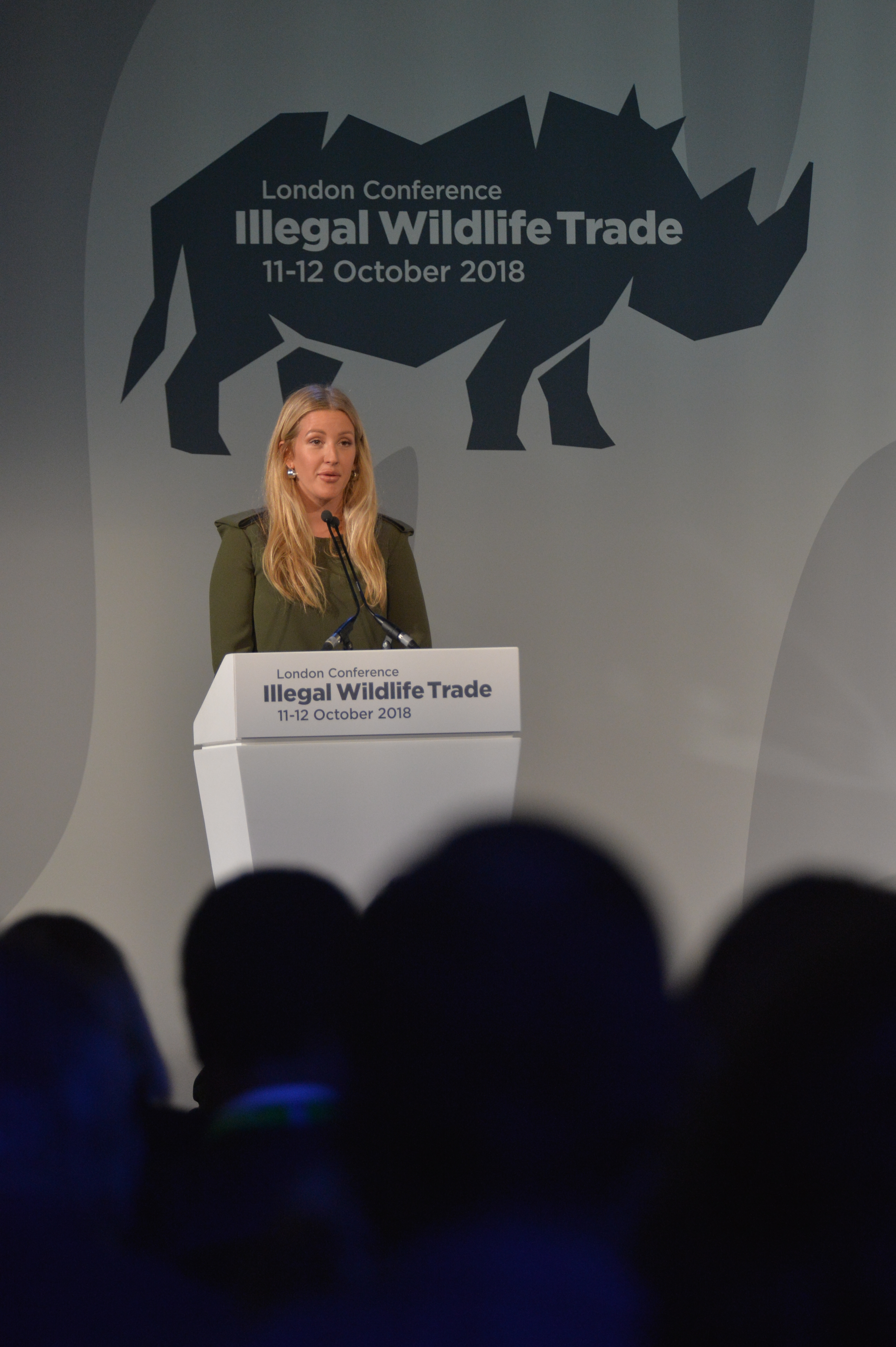 Ellie Goulding, UN Environment Goodwill Ambassador at the Illegal Wildlife Trade Conference: London 2018, 11 October 2018. Photographer: Mark Mackenzie